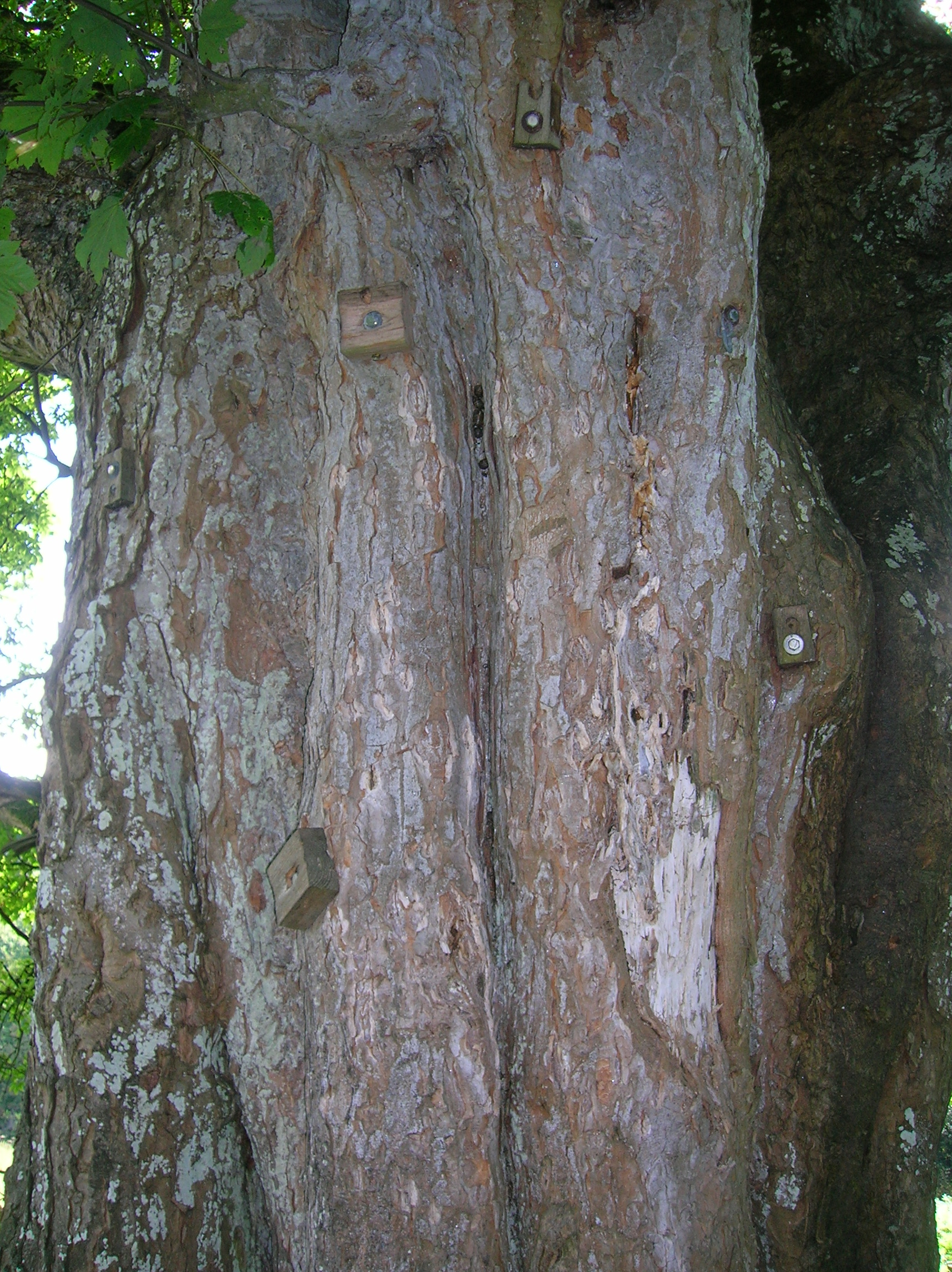 An ancient Sycamore (Acer pseudoplatanus) used as a climbing tree with hand holds, roping points, hanging logs, etc. Auchans Castle, Dundonald, South Ayrshire, Scotland.